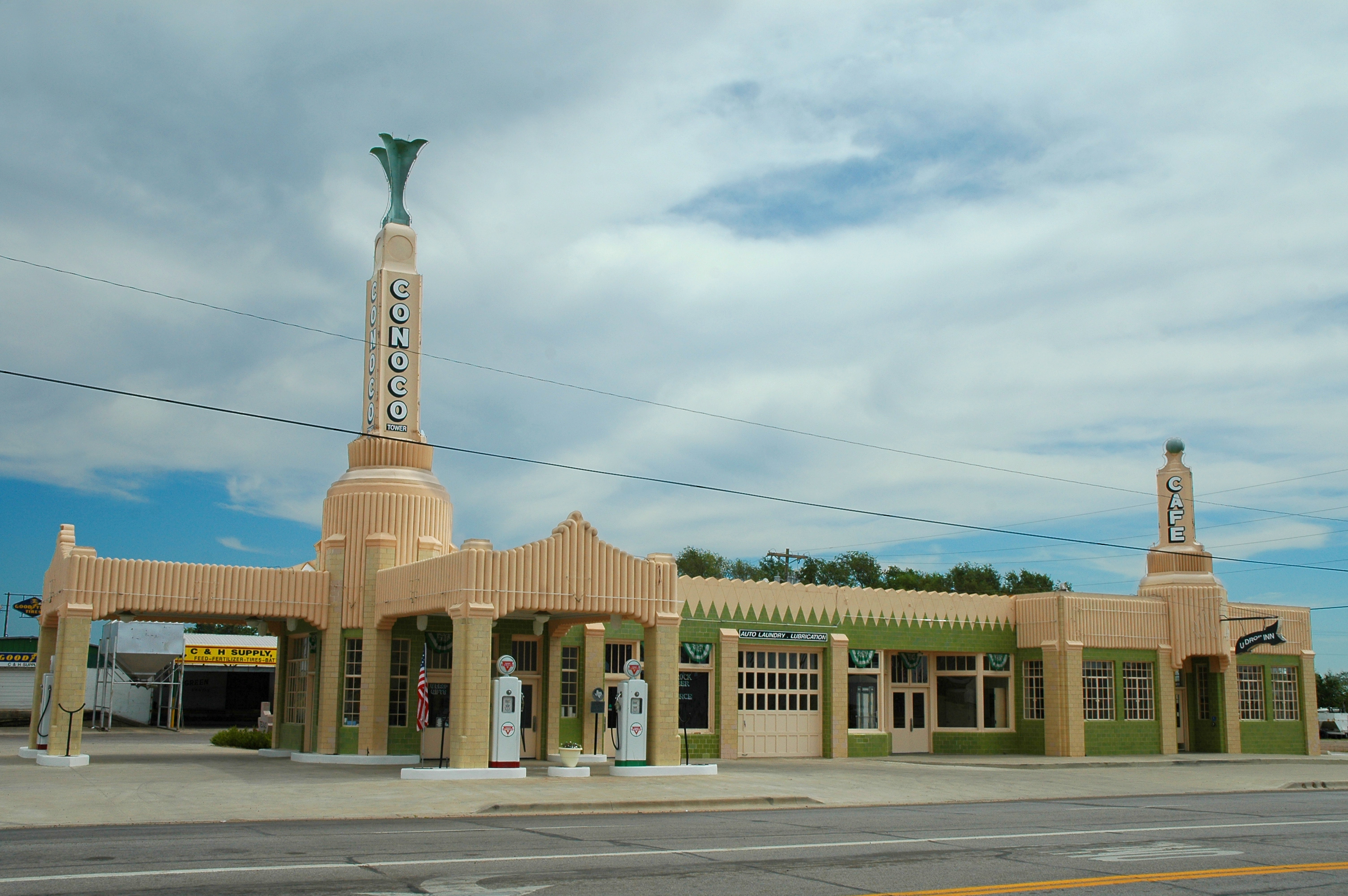 The Chamber of Commerce in Shamrock, Texas. A converted art-deco Conoco station and diner.